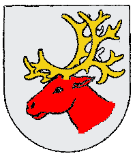 Coat of arms of Piteå city